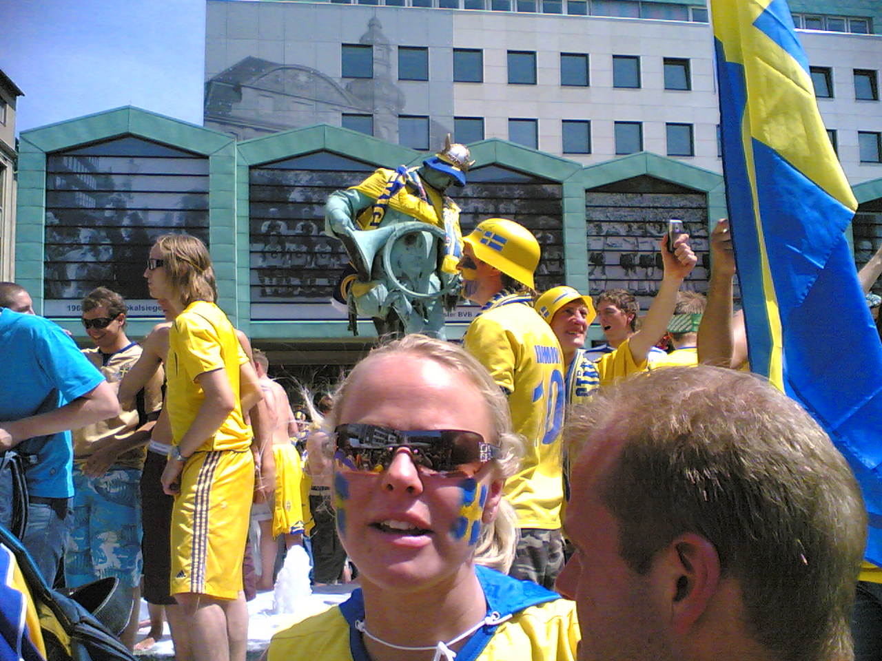 Football World Cup 2006: Germany, Dortmund, Alter Markt (Old Market): fans of the Swedish national team at the Bläserbrunnen (brass fontain) before the game Sweden versus Trinidad & Tobago in the Westfalenstadion.